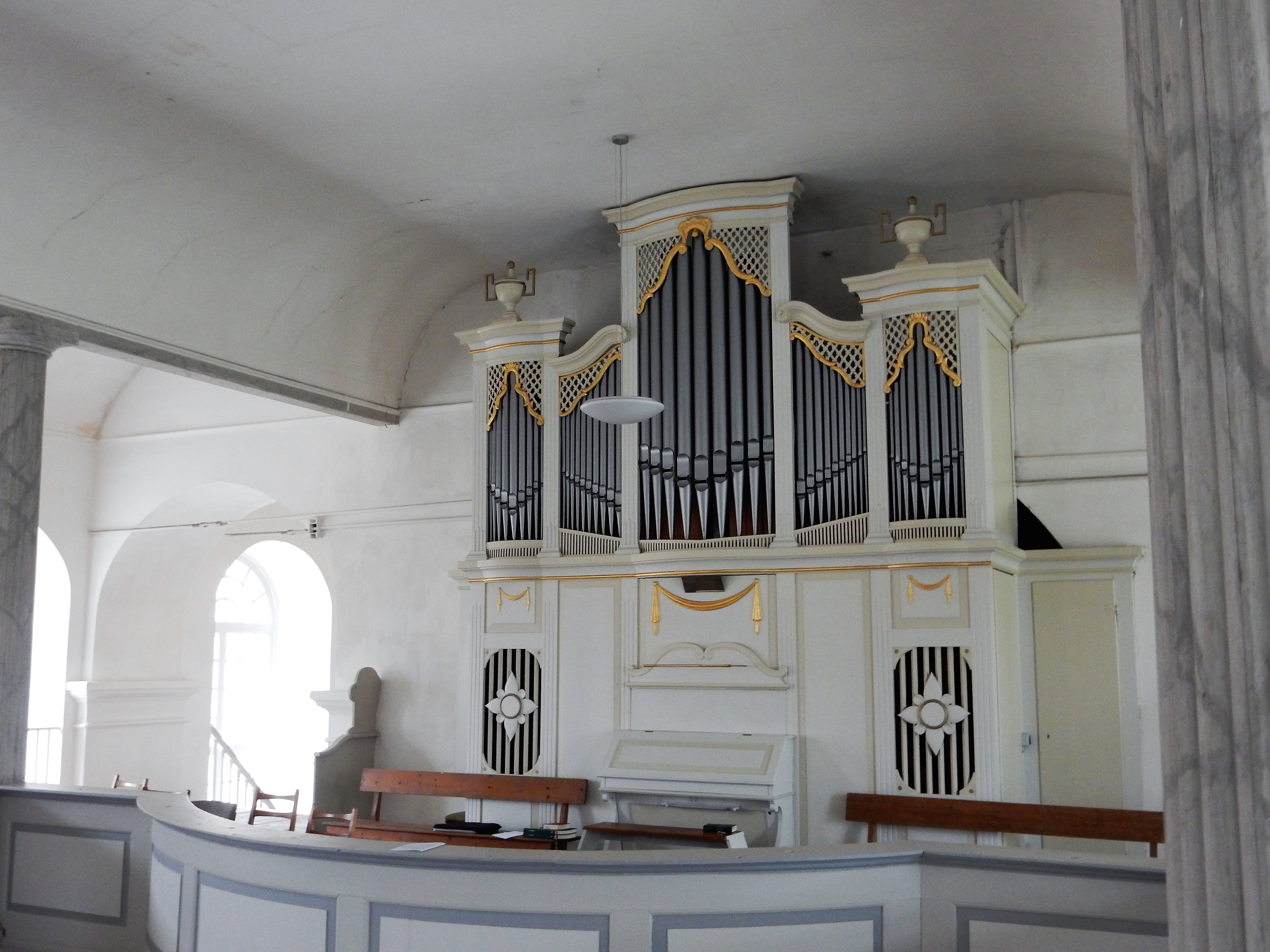 Schuke organ (1898) in Church Golssen